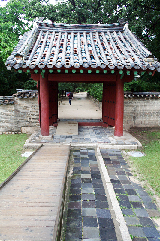 A side gate to the main hall.